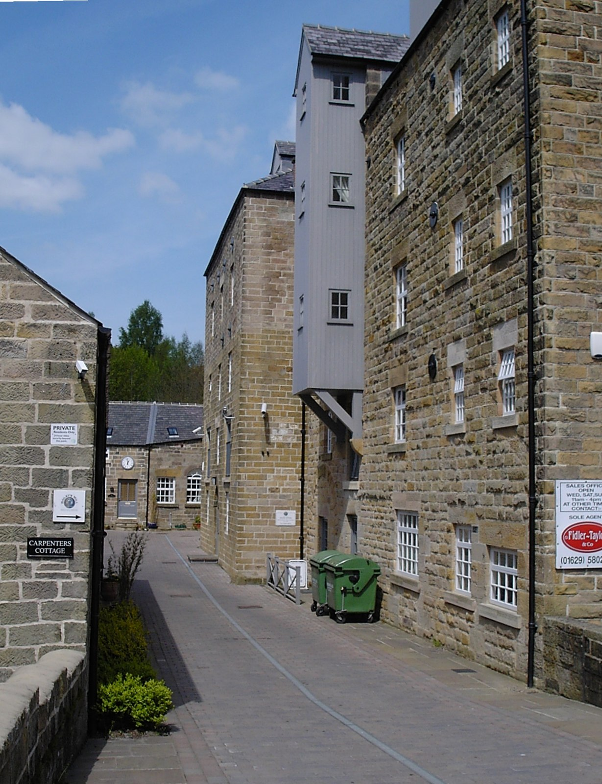 Matlock - Bailey's Mill